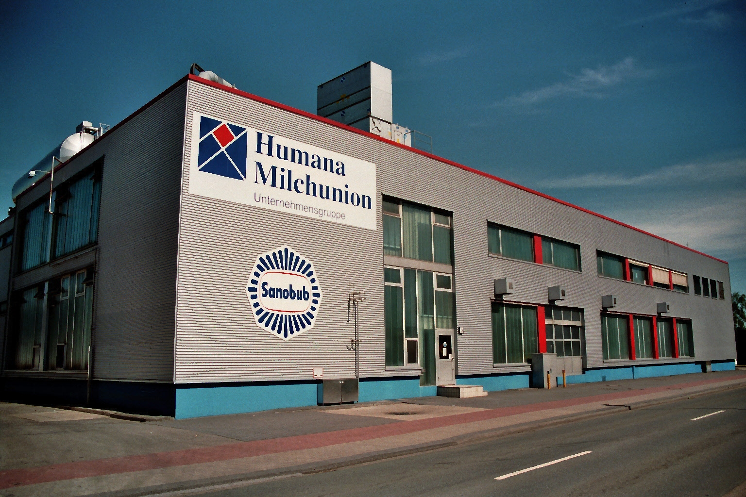 Sanobub ice cream factory of the Humana Milchunion eG in Recke, Kreis Steinfurt, North Rhine-Westphalia, Germany.